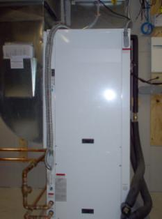 Mark Johnson's heat pump photo.